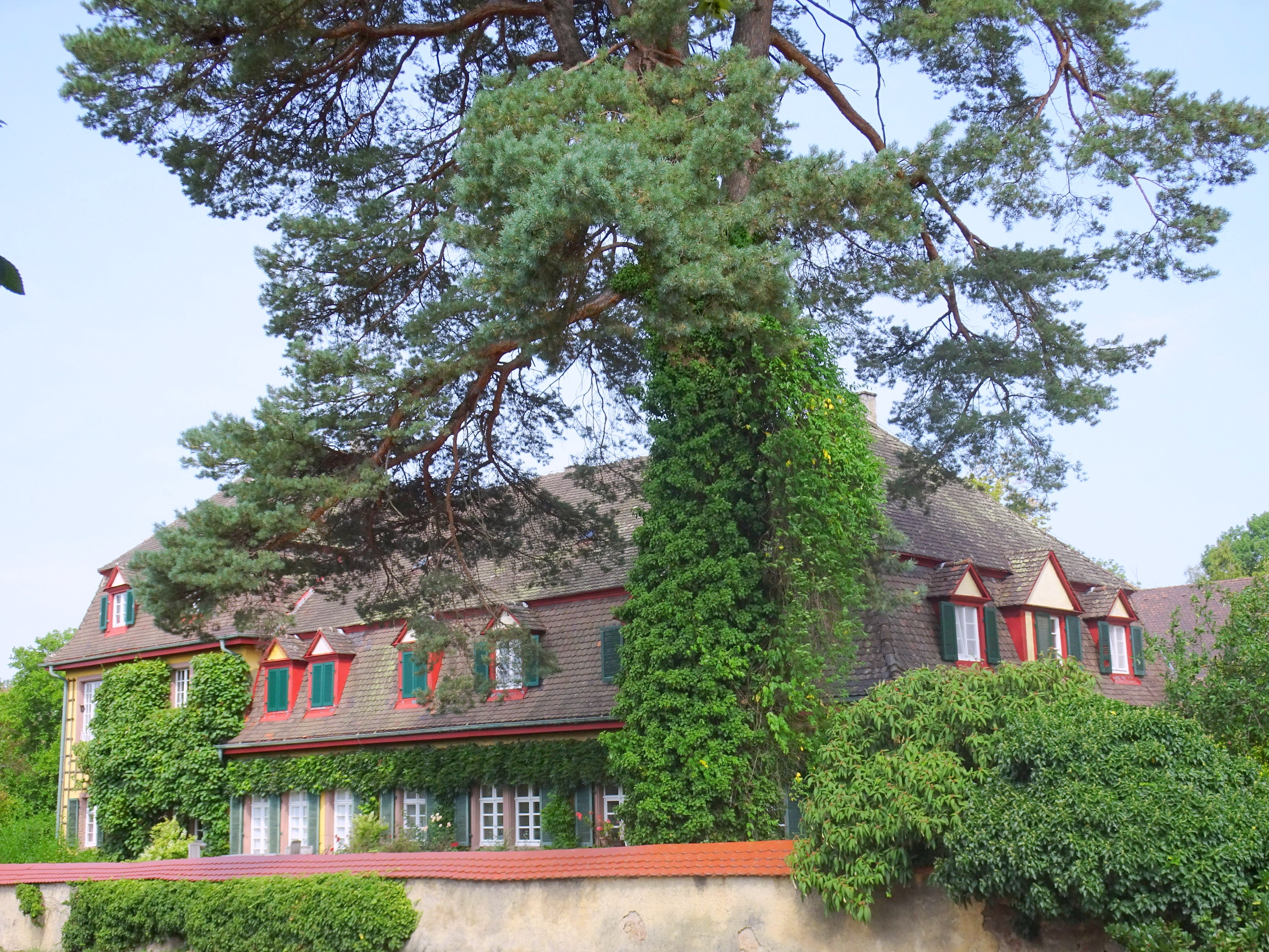 Chateau of the Holzing-Bersttet family in Bollschweil, Germany - homeplace of the writer Marie Luise Kaschnitz